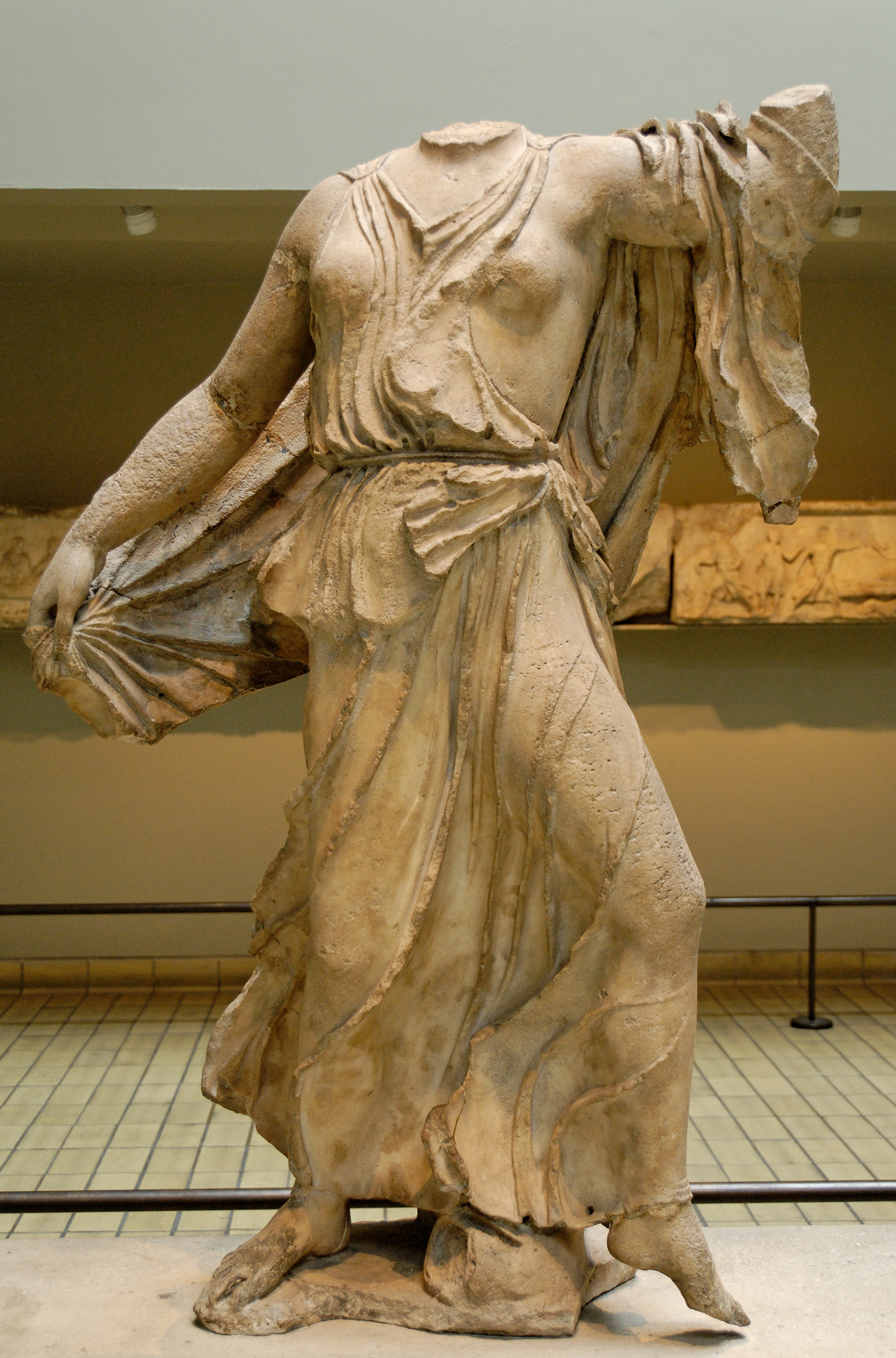 Nereid, originally placed on the podium, between the columns of the Nereid Monument. Marble, ca. 390-360 BC. From Xanthos, Lydia.